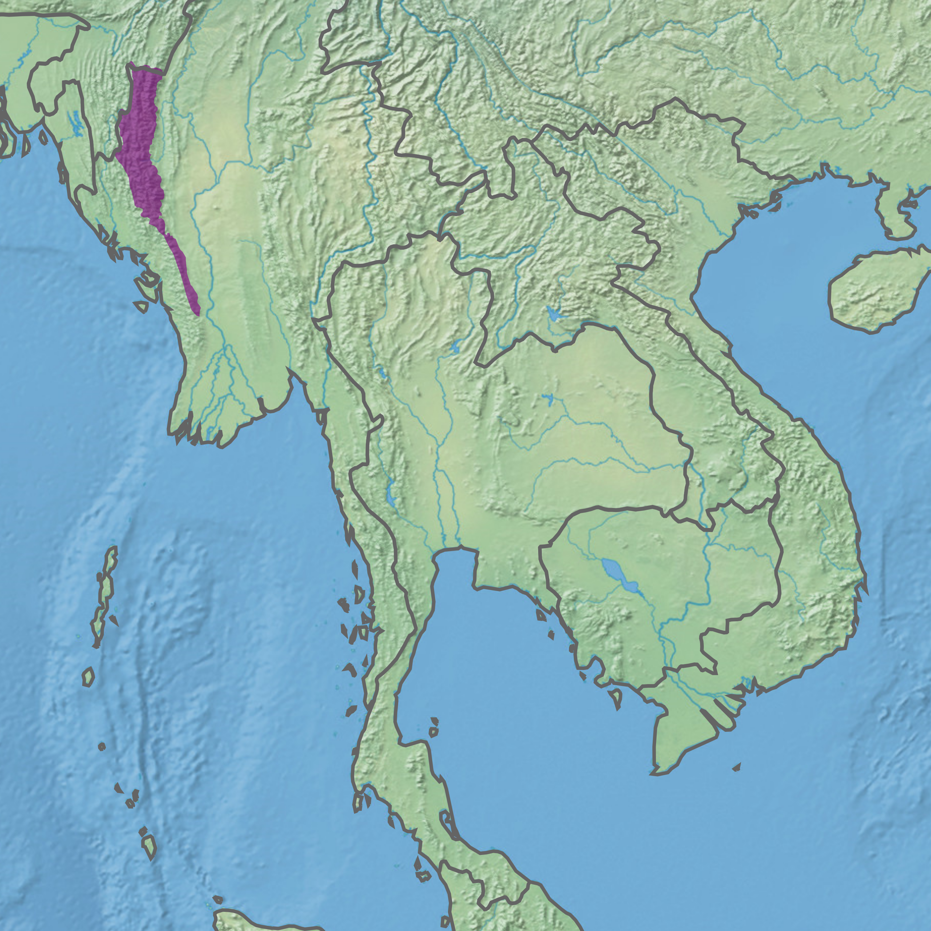 Ecoregion IM0109 - Chin Hills-Arakan Yoma montane forests (in purple)